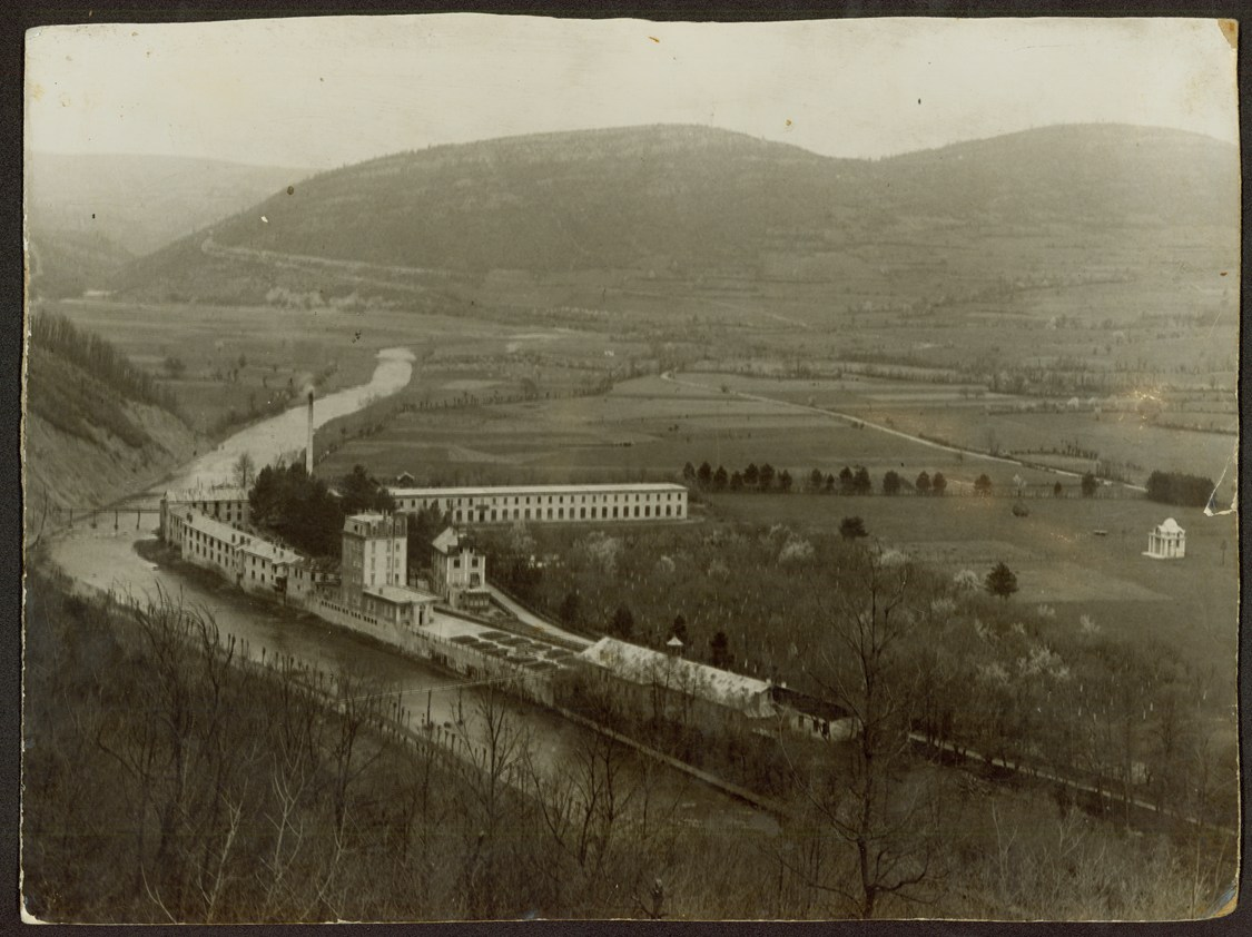 Ivan Hadzhiberov's Factory, Gabrovo, Bulgaria